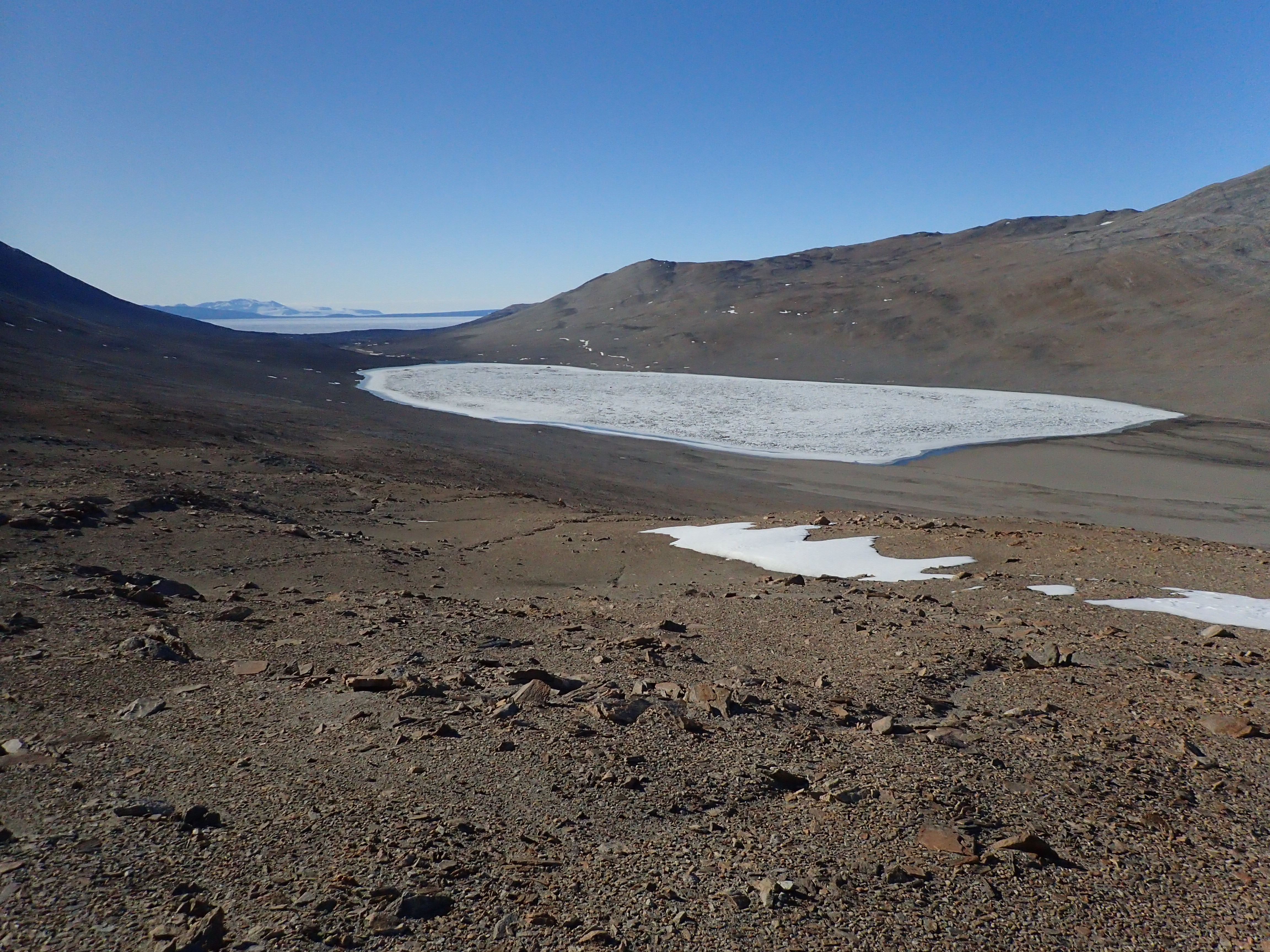 Miers Valley: view towards the east with Lake Miers in the center